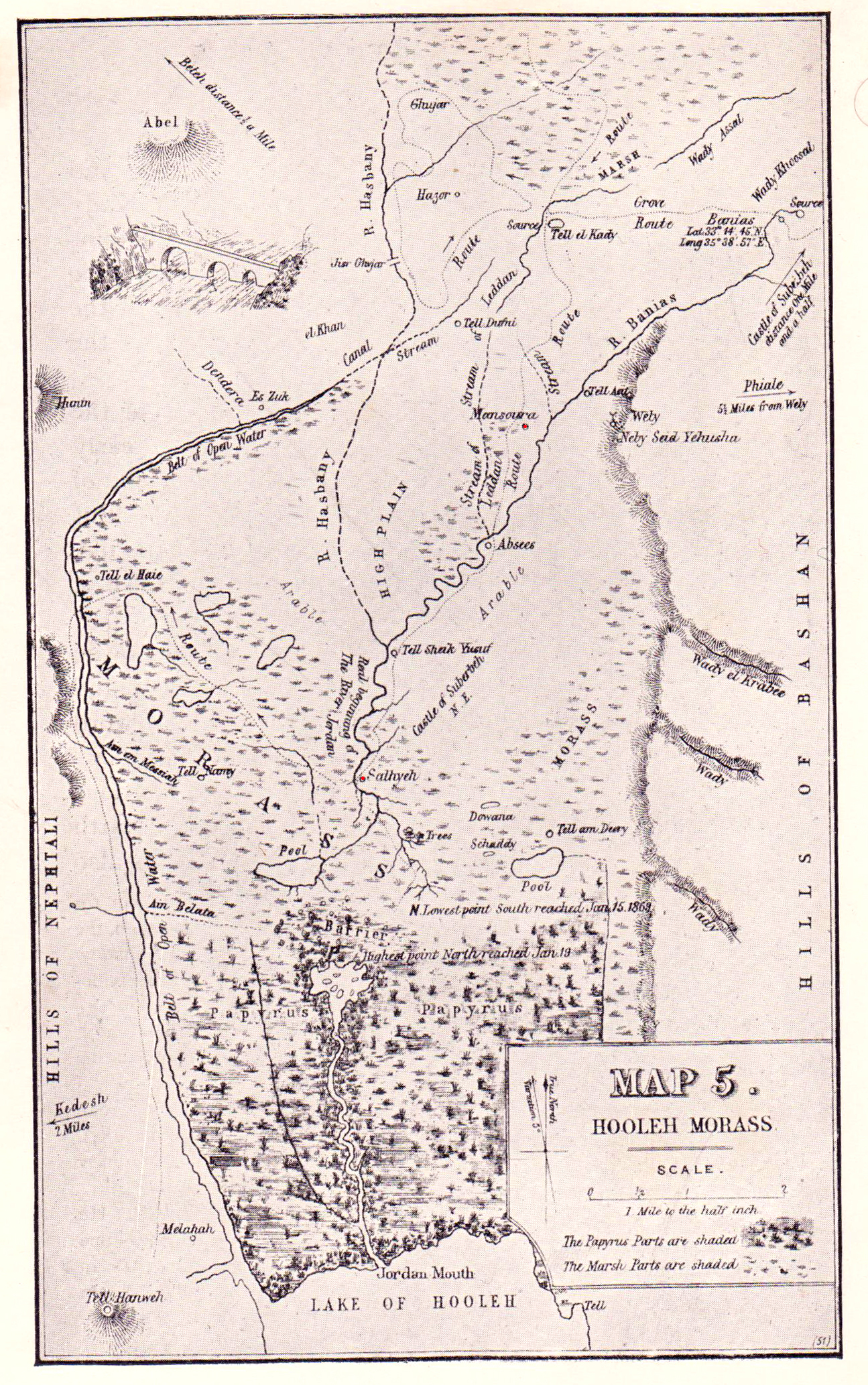 Salhyeh and Mansoura - Hooleh Morass